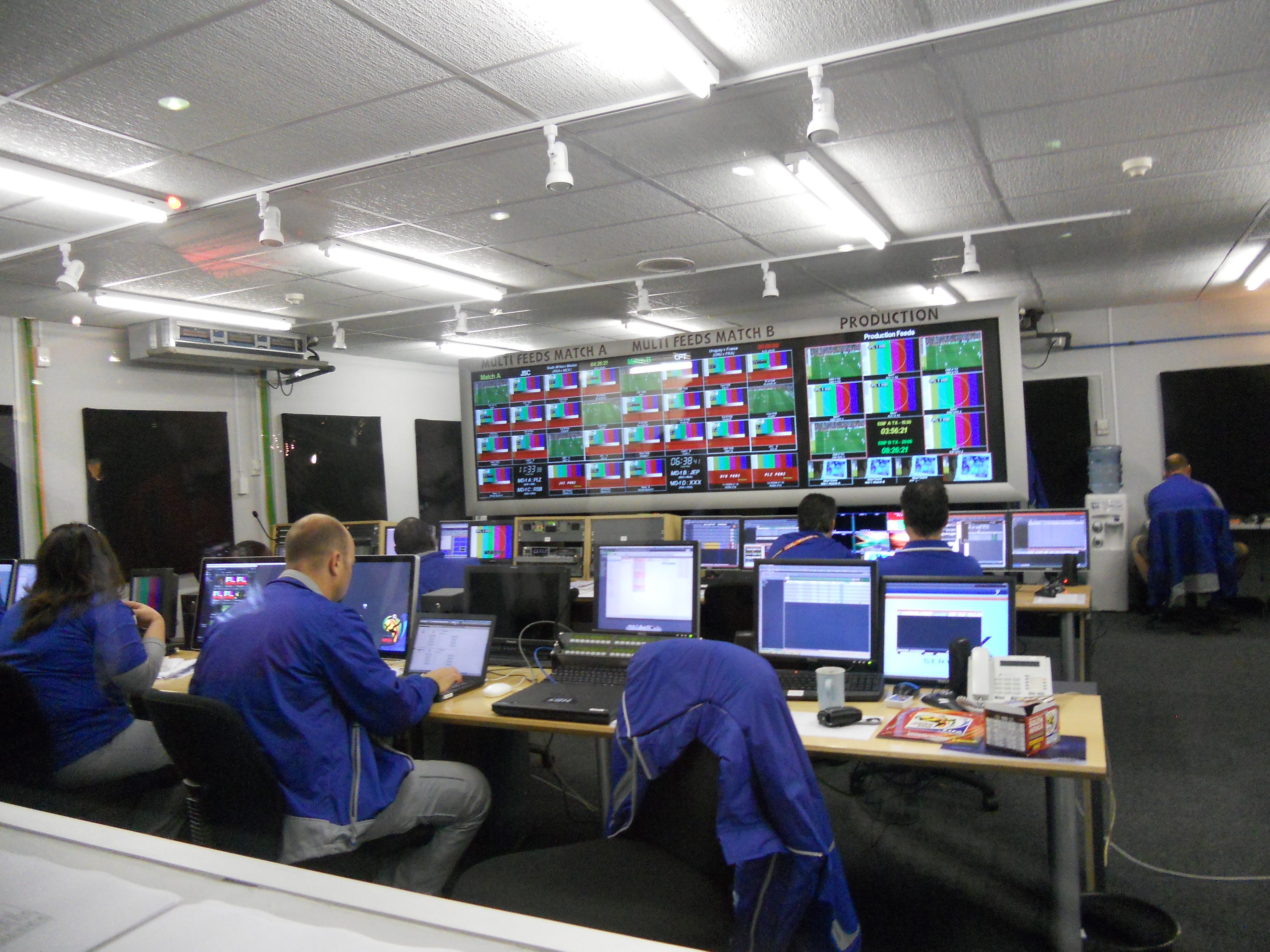 Inside the FIFA international broadcast centre: Production set of the 2010 FIFA World Cup TV, Soccer City, Johannesburg, 2010-06-02.